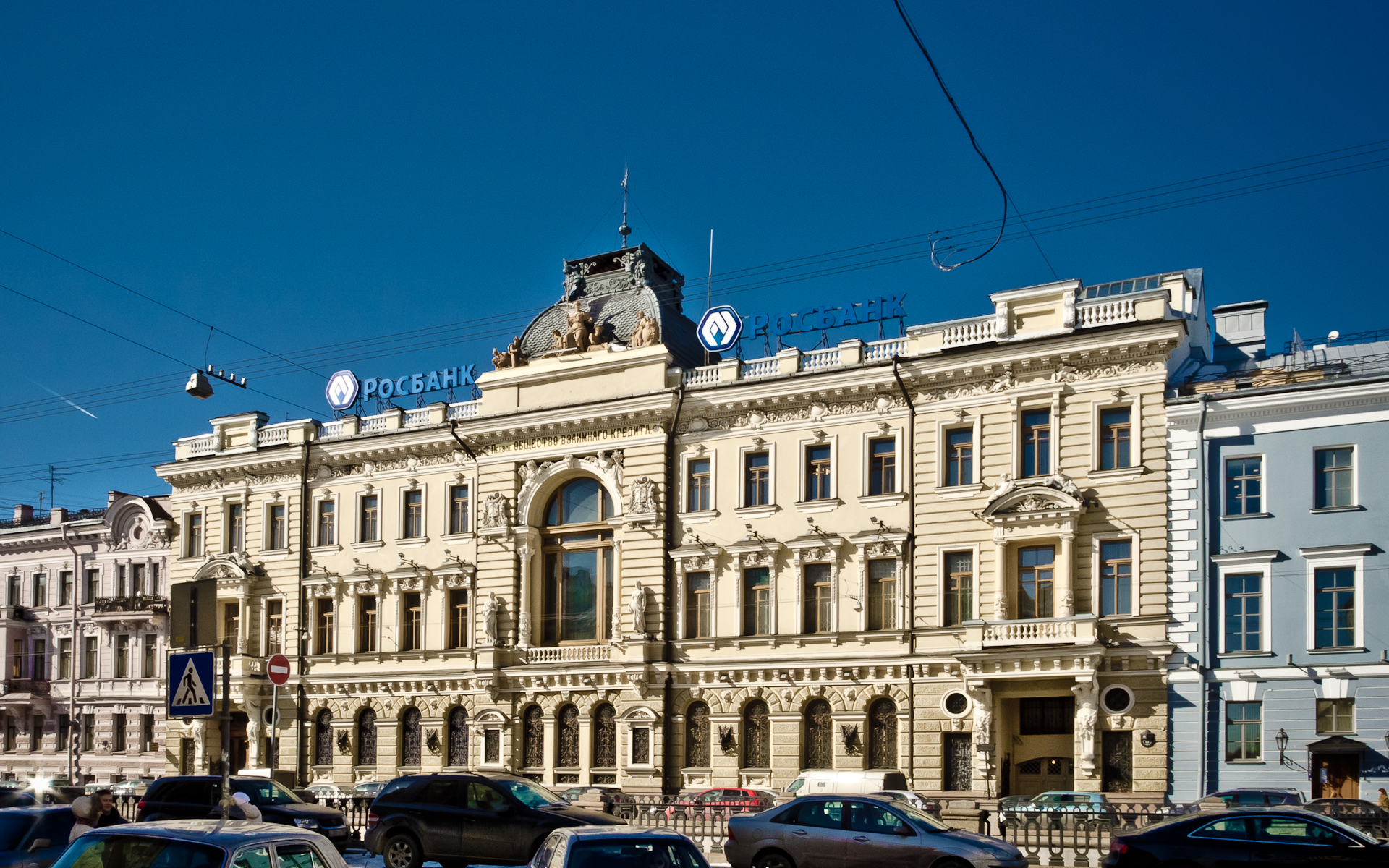 The First Mutual Credit Society House of Saint Petersburg